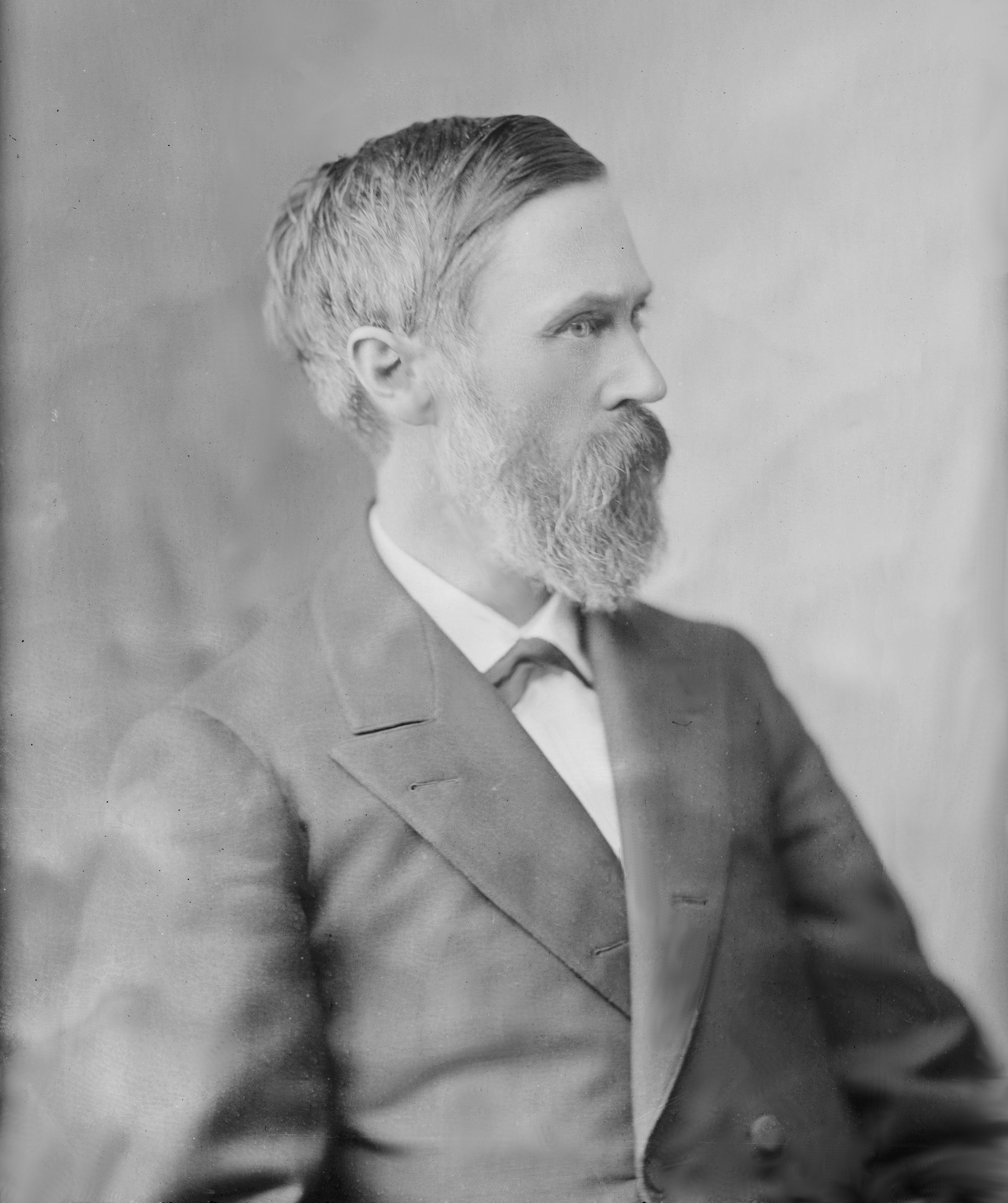 Samuel Bernard Dick. Library of Congress description: "Dick, Hon. Samuel Bernard of PA, Commanded Co. F. 9th Pa Reserve Corps. (Severely wounded in Dranesville, Va. Dec. 20, 1861)"